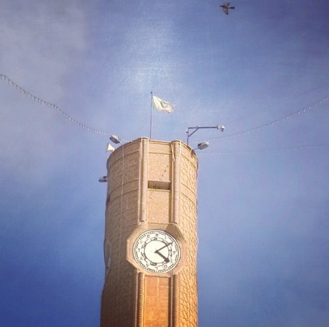 The Clock tower in Abu Hanifa Mosque in Baghdad